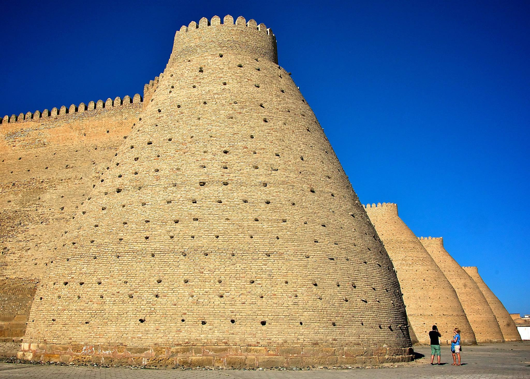 Southern wall of Ark Fortress, Bukhara, Uzbekistan